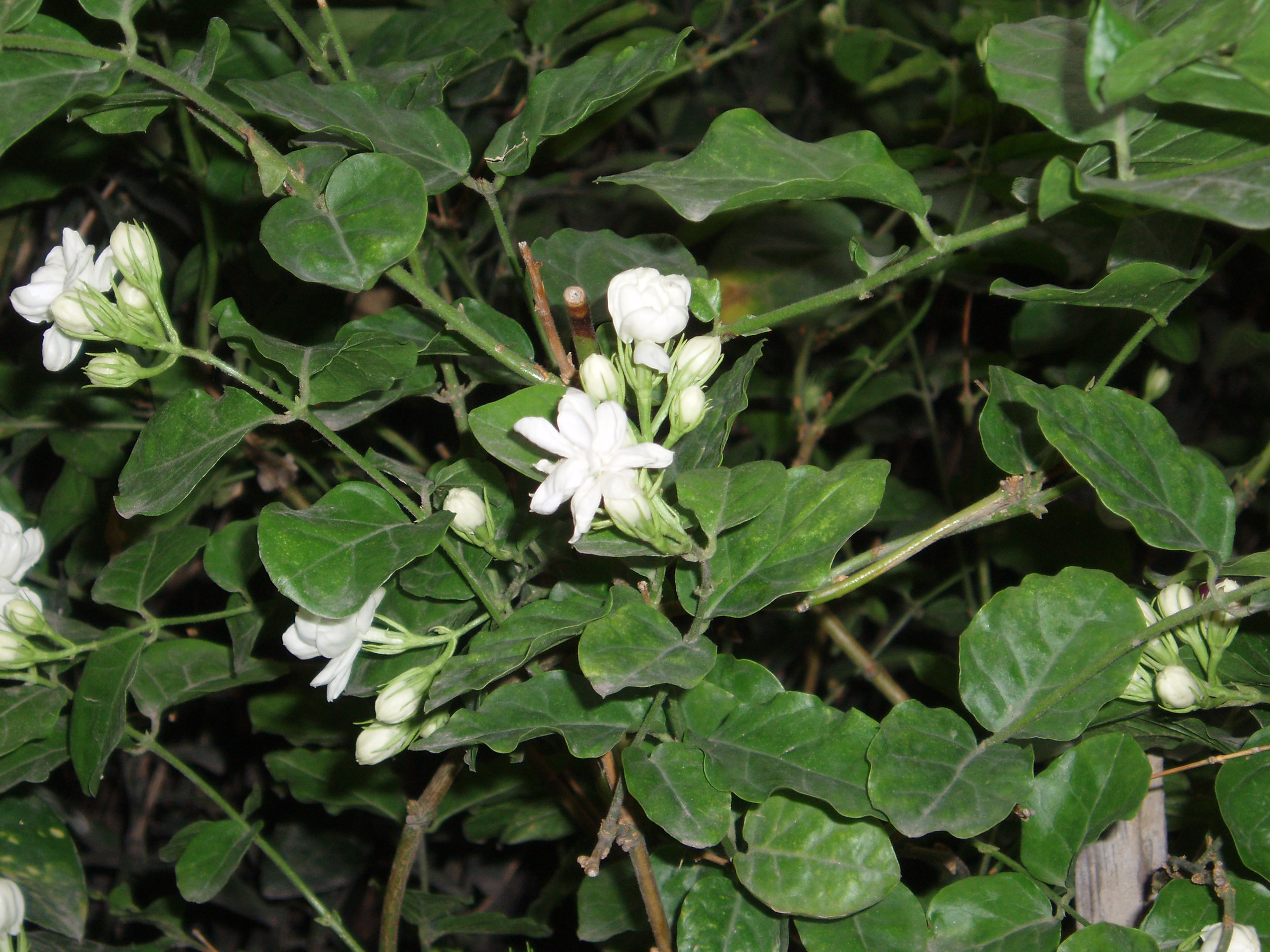 Arabian jasmin 'Arabian Nights'